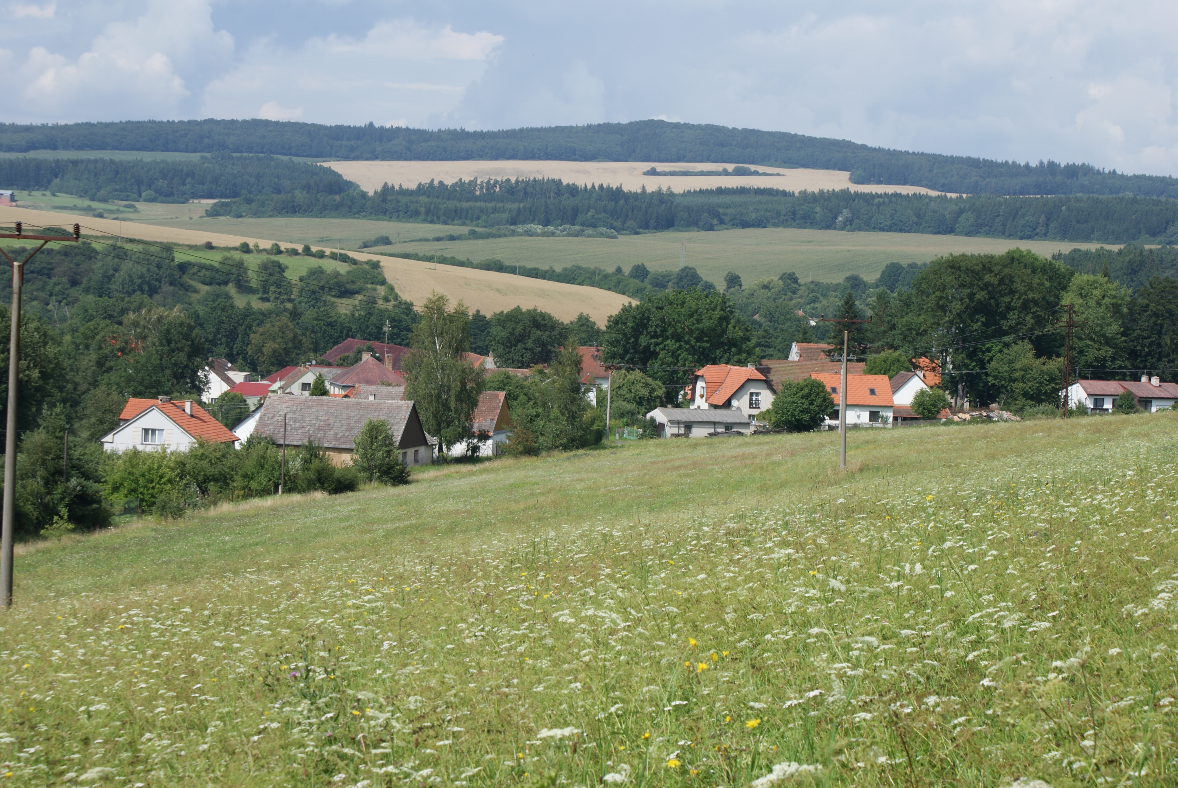 Prádlo, a village in Plzeň-South District, Czech Republic, general view.